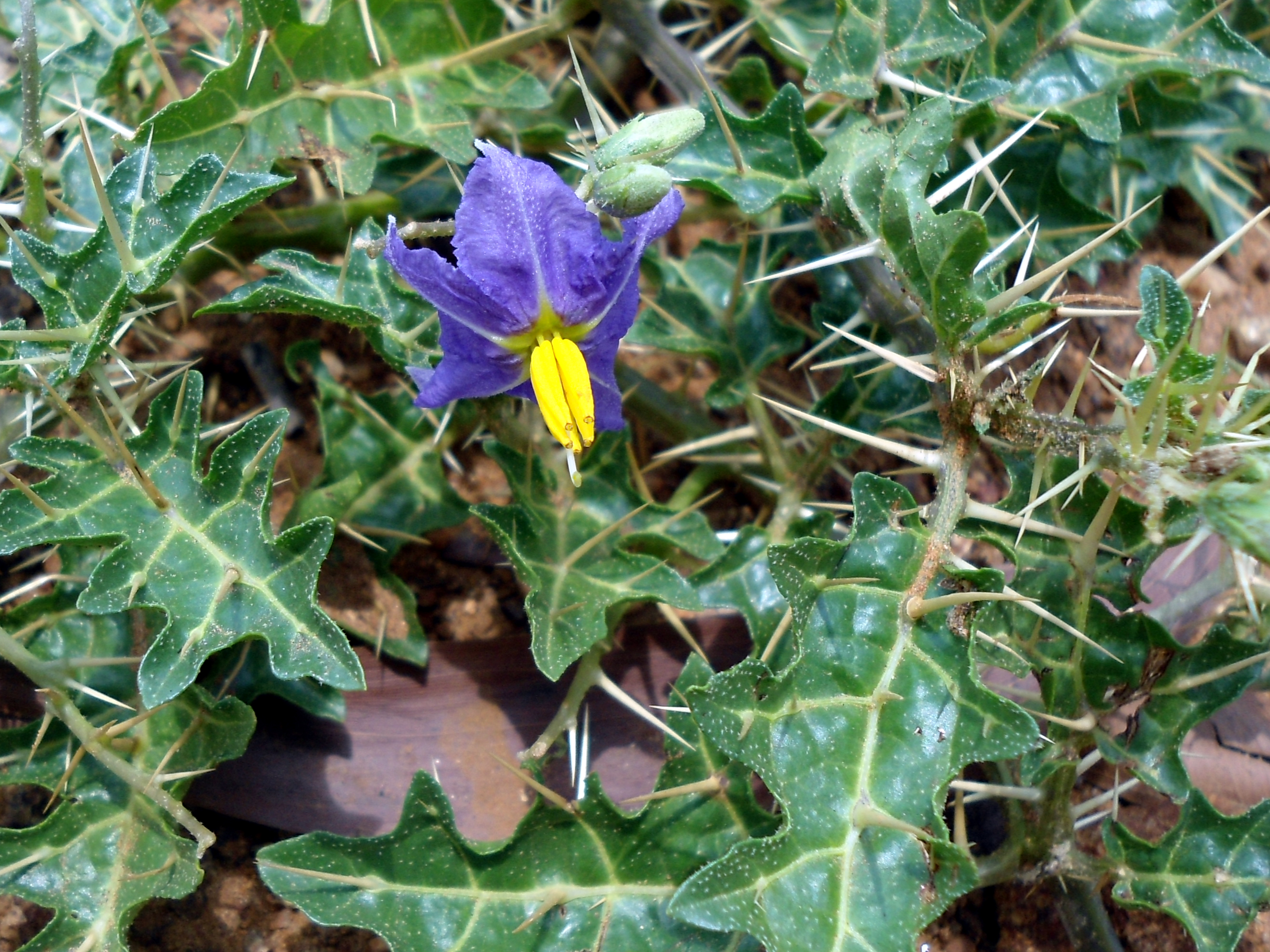 (Solanum surattense) Shrub at Kambalakonda Wildlife Sanctuary, Visakhapatnam